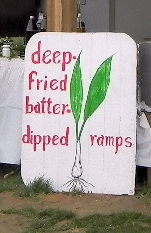 Deep fried ramps sign at Mason-Dixon Ramp Fest in Mt. Morris, Pennsylvania circa 2010